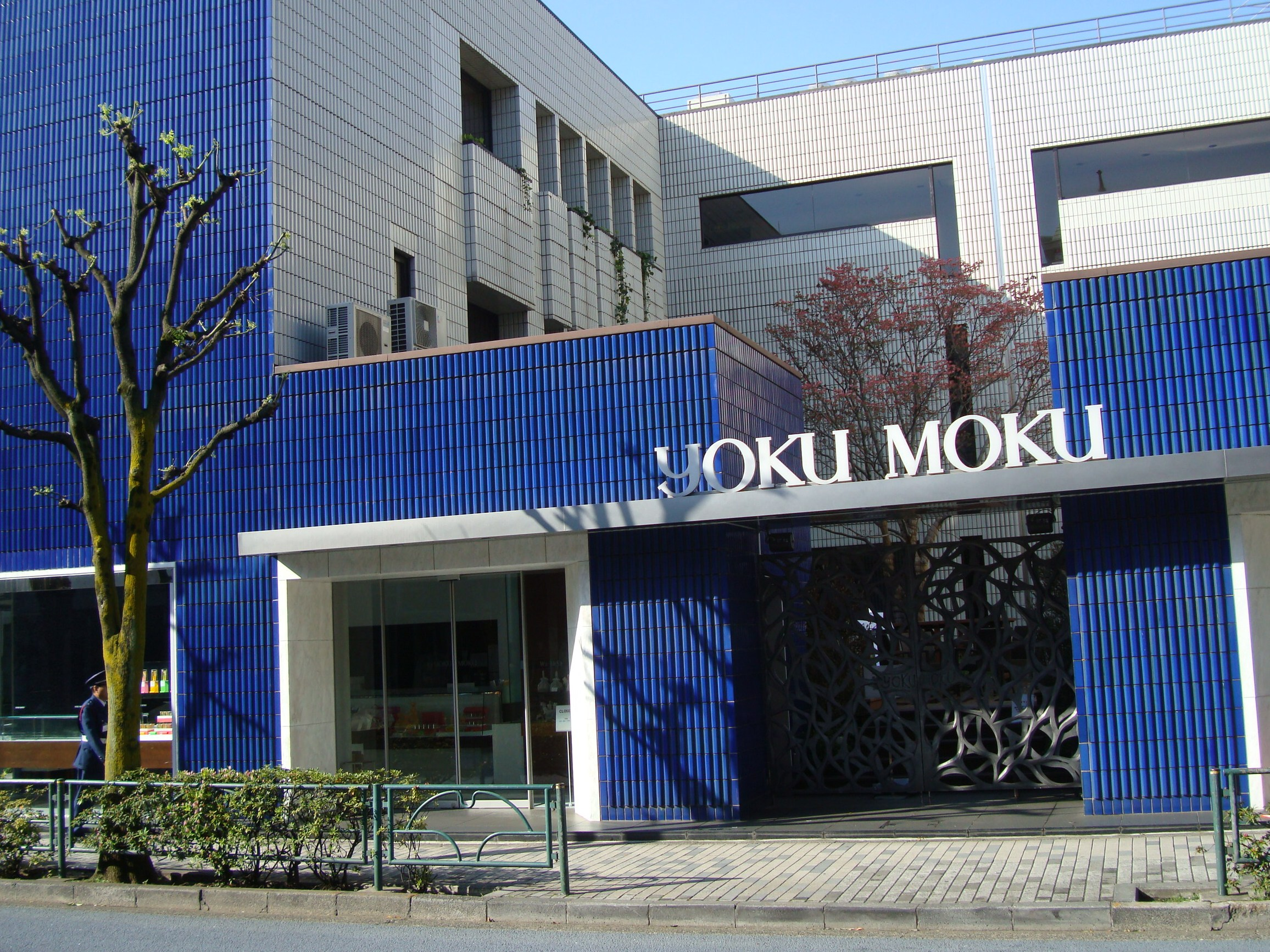 Yoku Moku's haead store and cafe at Aoyama, Tokyo